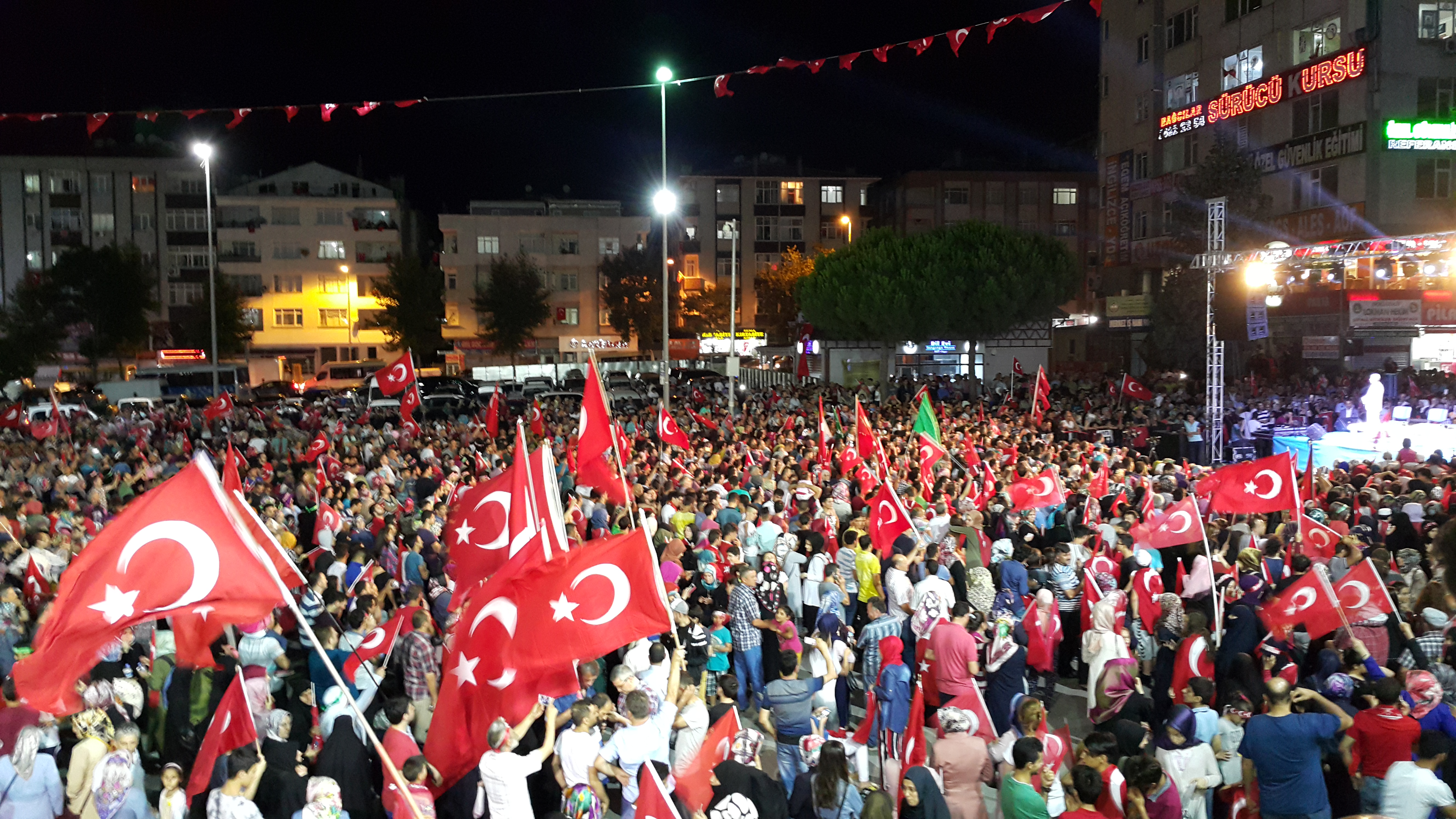 Anti-coup protesters after 15 July 2016 Turkish coup d'état attempt in Bağcılar, İstanbul, Turkey.